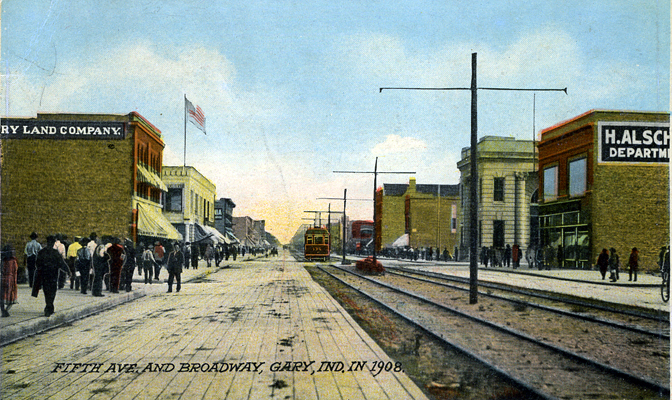 Gary, Indiana business district, 5th Ave and Broadway, pictured in 1908